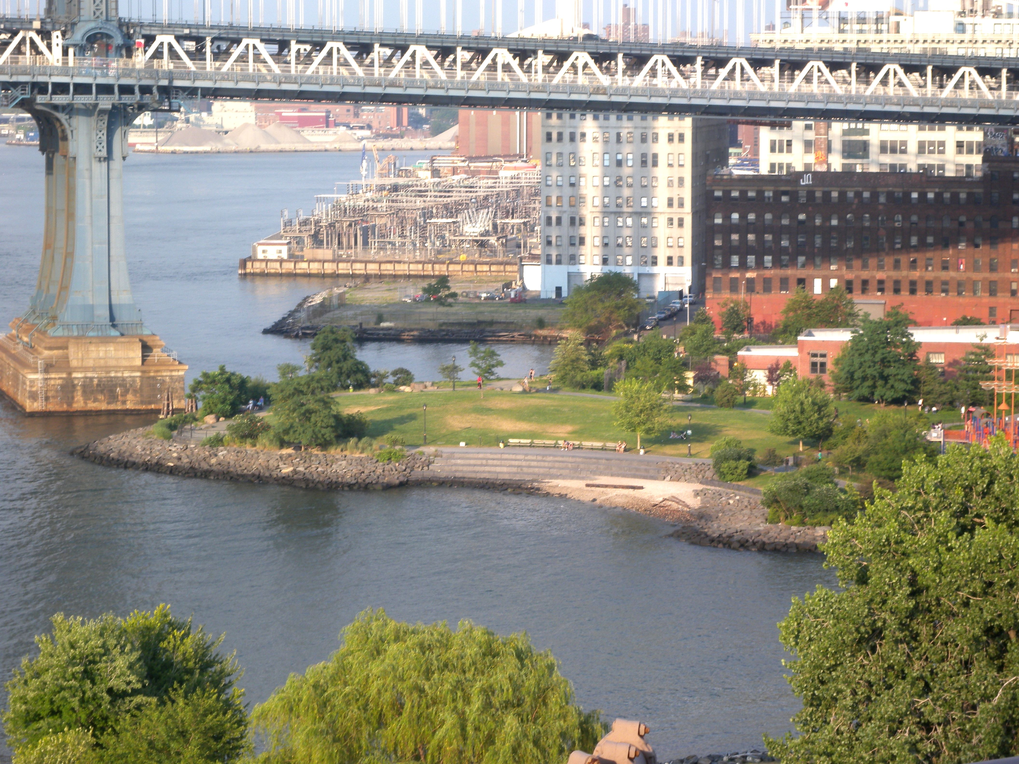 Looking east from Brooklyn Bridge at park on a hazy day before sunset. See also File:E-FFerry St Pk BB jeh.jpg.